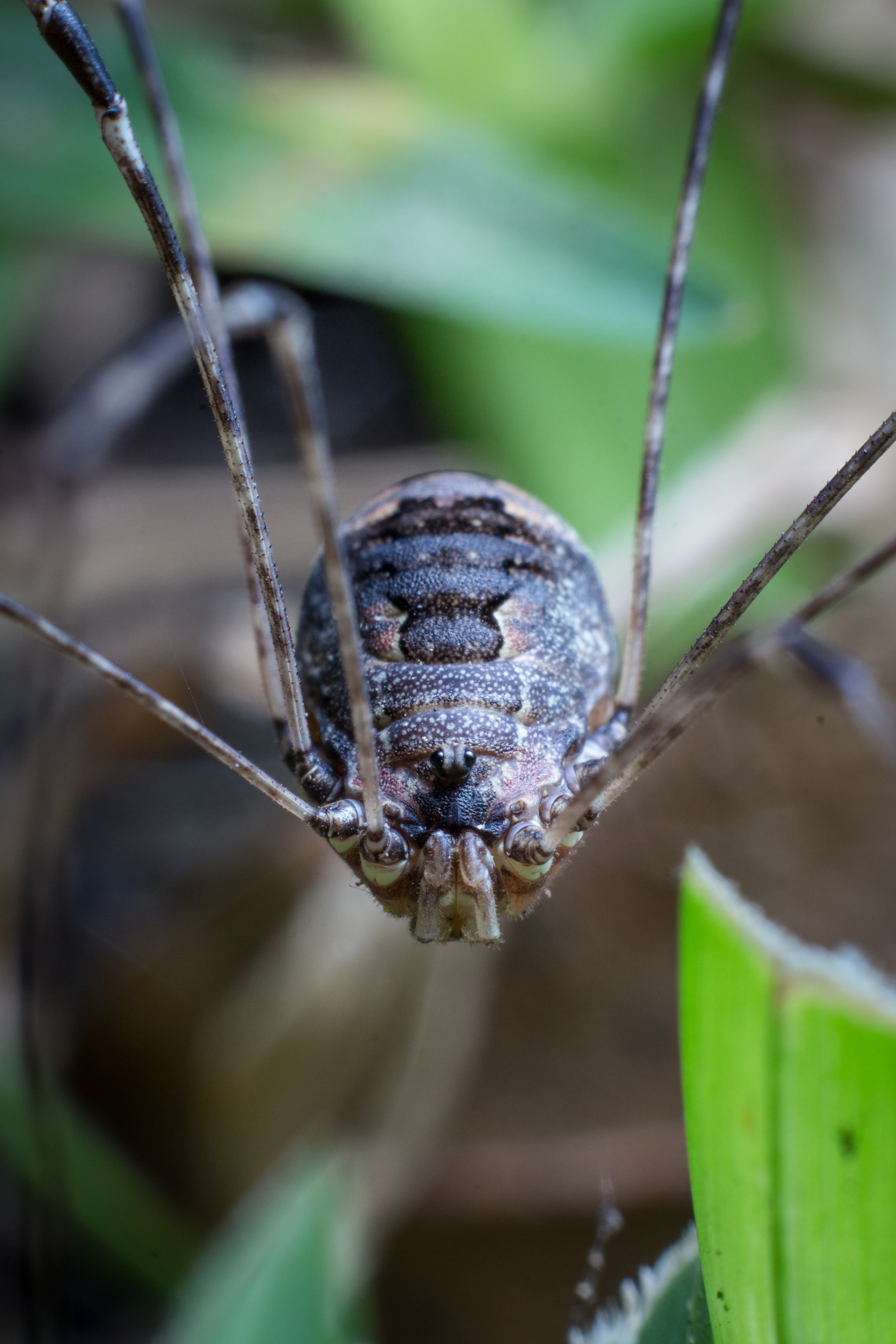 Frontal view of a member of Leiobunum.